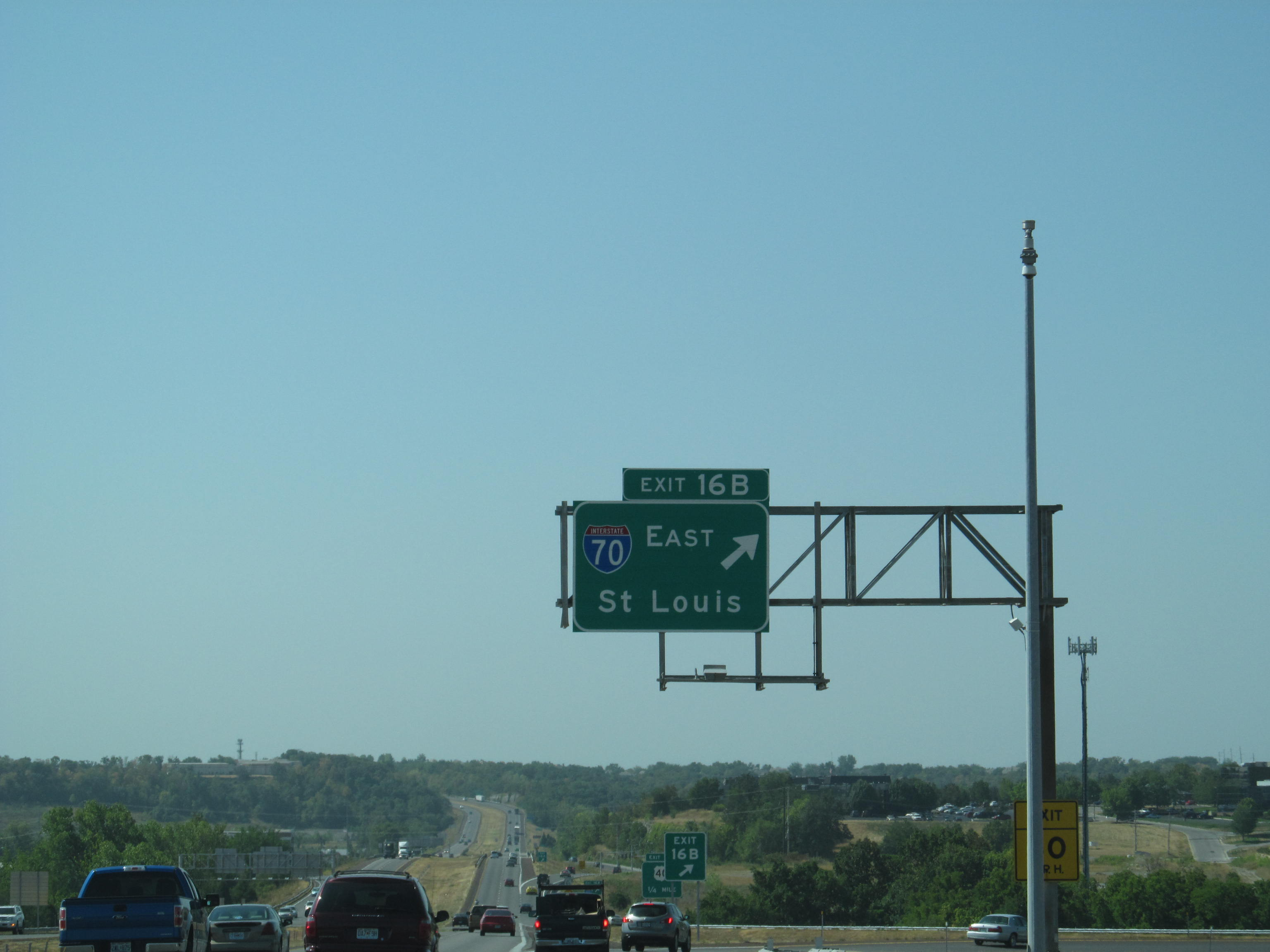 Interstate 470 - Missouri westbound at exit for Interstate 70 eastbound in Independence